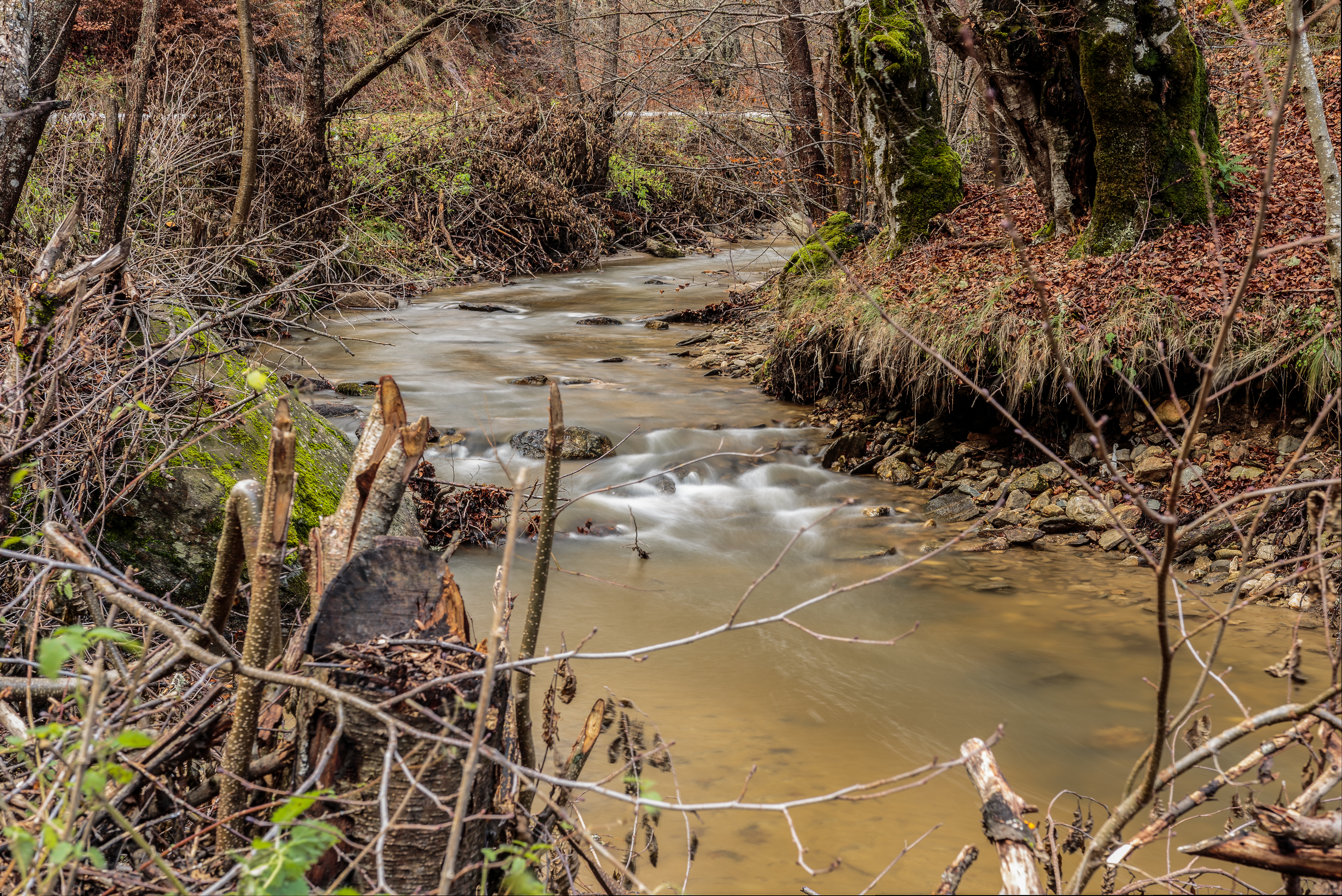 View of the Dvorište River